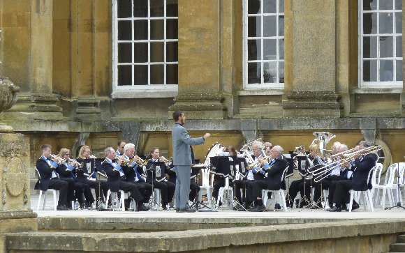 The Pangbourne and District Silver Band performing as part of the Oxford and District Brass Band Association's Festival of Brass at Blenheim Palace on 25 July 2010